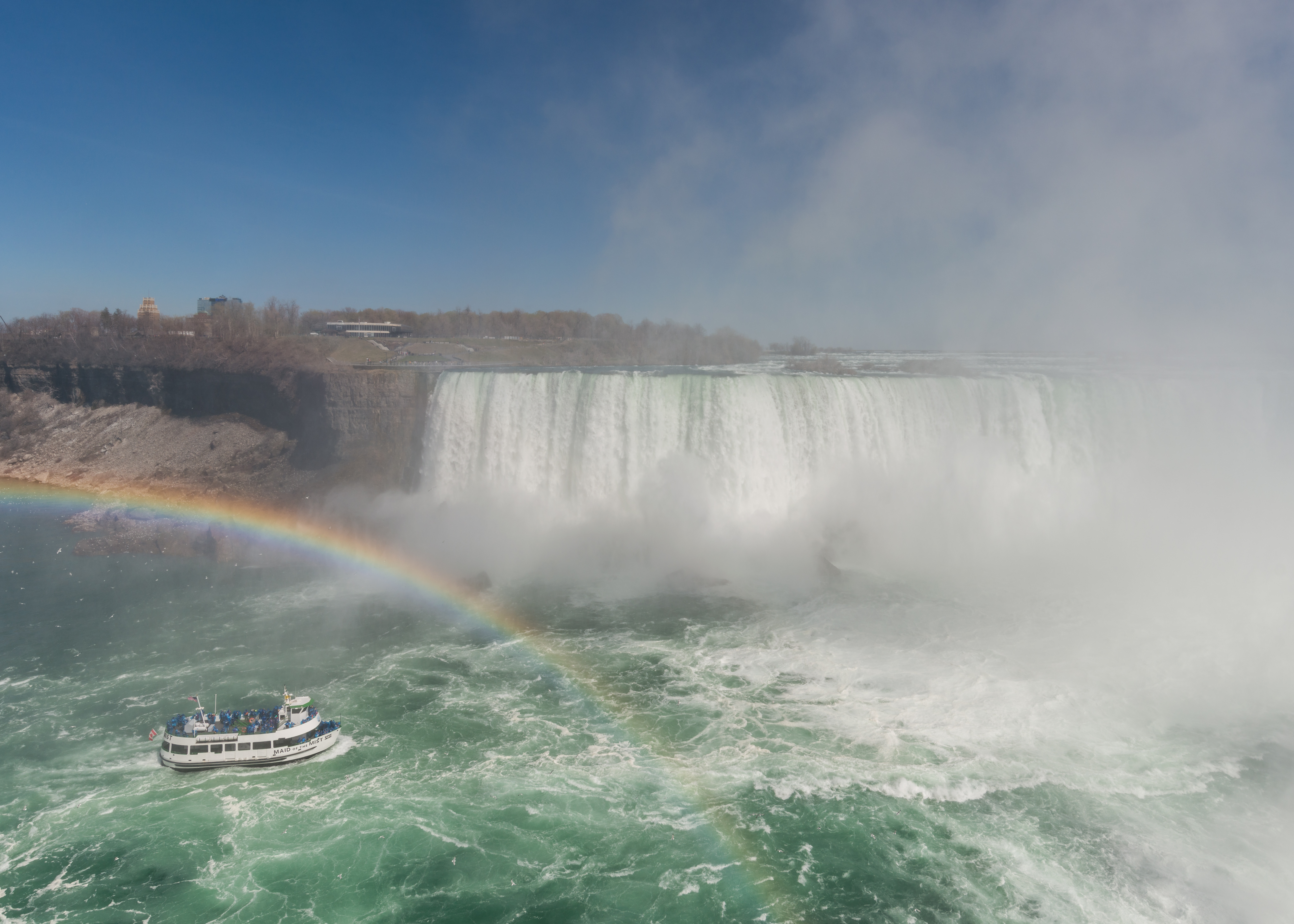 A west view of the Horseshoe Falls, shown as Maid of the Mist VII is approaching. A rainbow is visible due to the large amount of mist caused by the waterfall